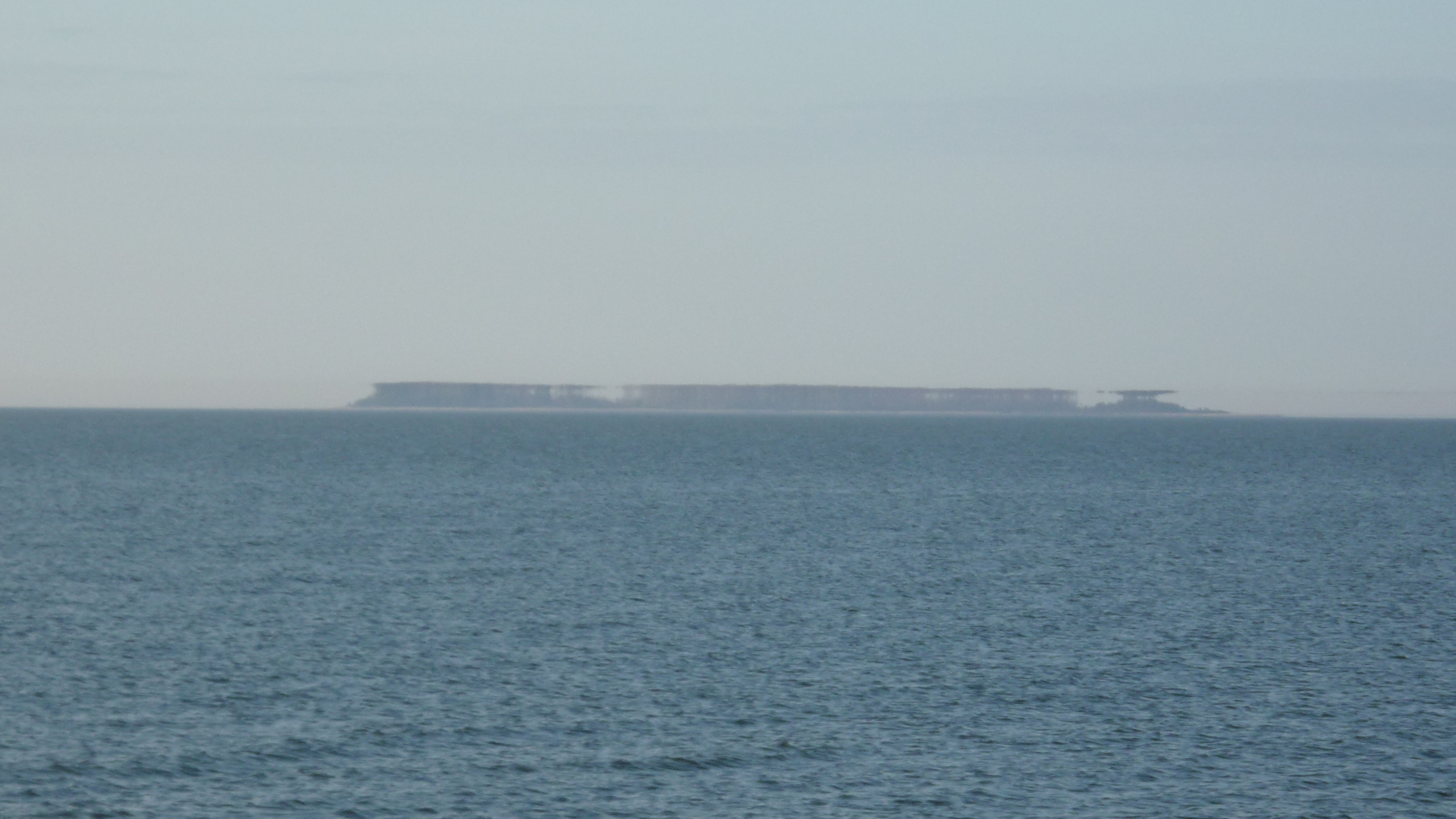 Fata Morgana and island Kõverlaid. View from south. Hiiu county, Estonia.